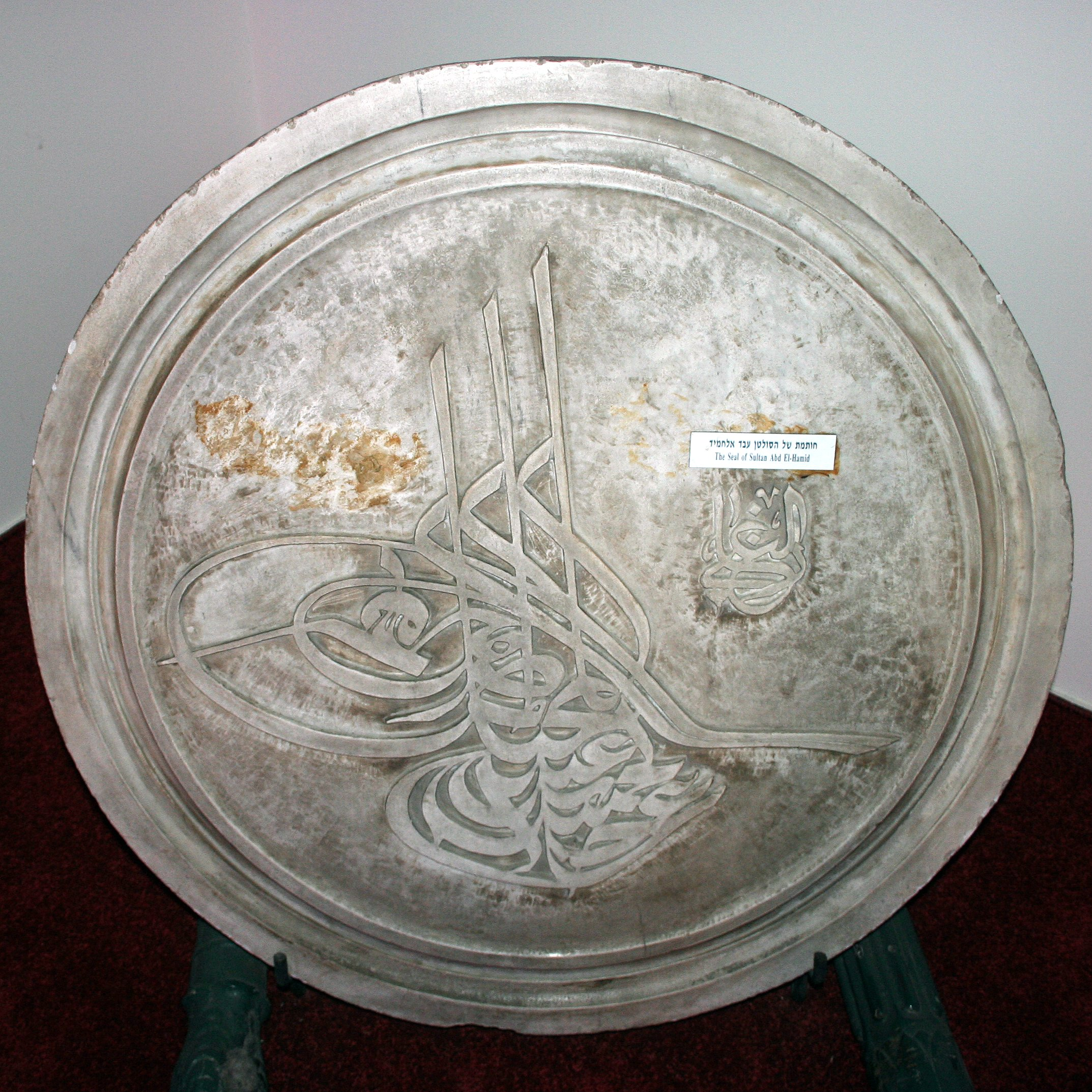 Seal of Sultan Abd El-Hamid on display at the Israel Railway Museum in Haifa.